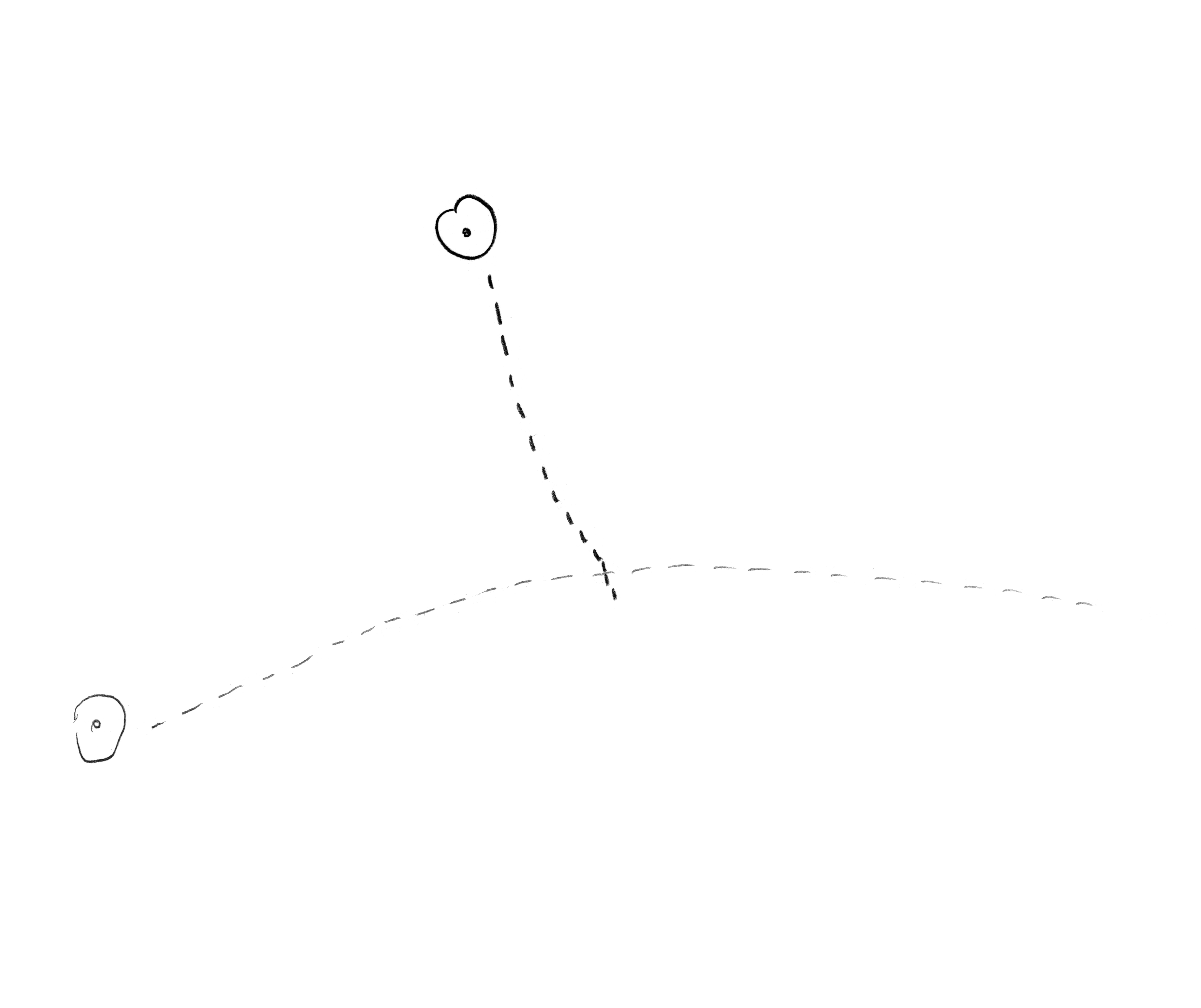 Ute Reeh, drawing, 2014: The view of the observer (in this case the architect Johannes Schillings) and its influence on the direction of a process